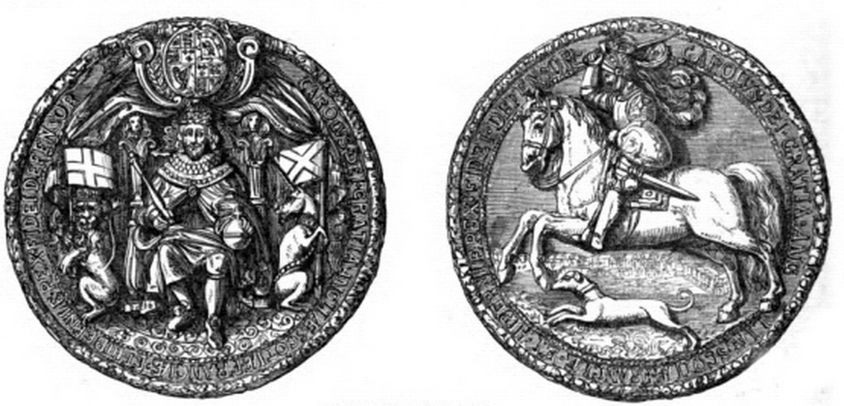 The title is the same as the image caption above and in "Cassell's Illustrated History of England, Volume 3". The number shown is the page number. Follow the image link to the full book vol.3.